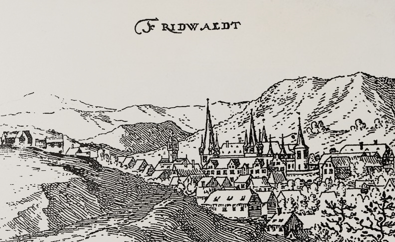 pen drawing of the village Friedewald, made by Wilhelm Dilich in 1605